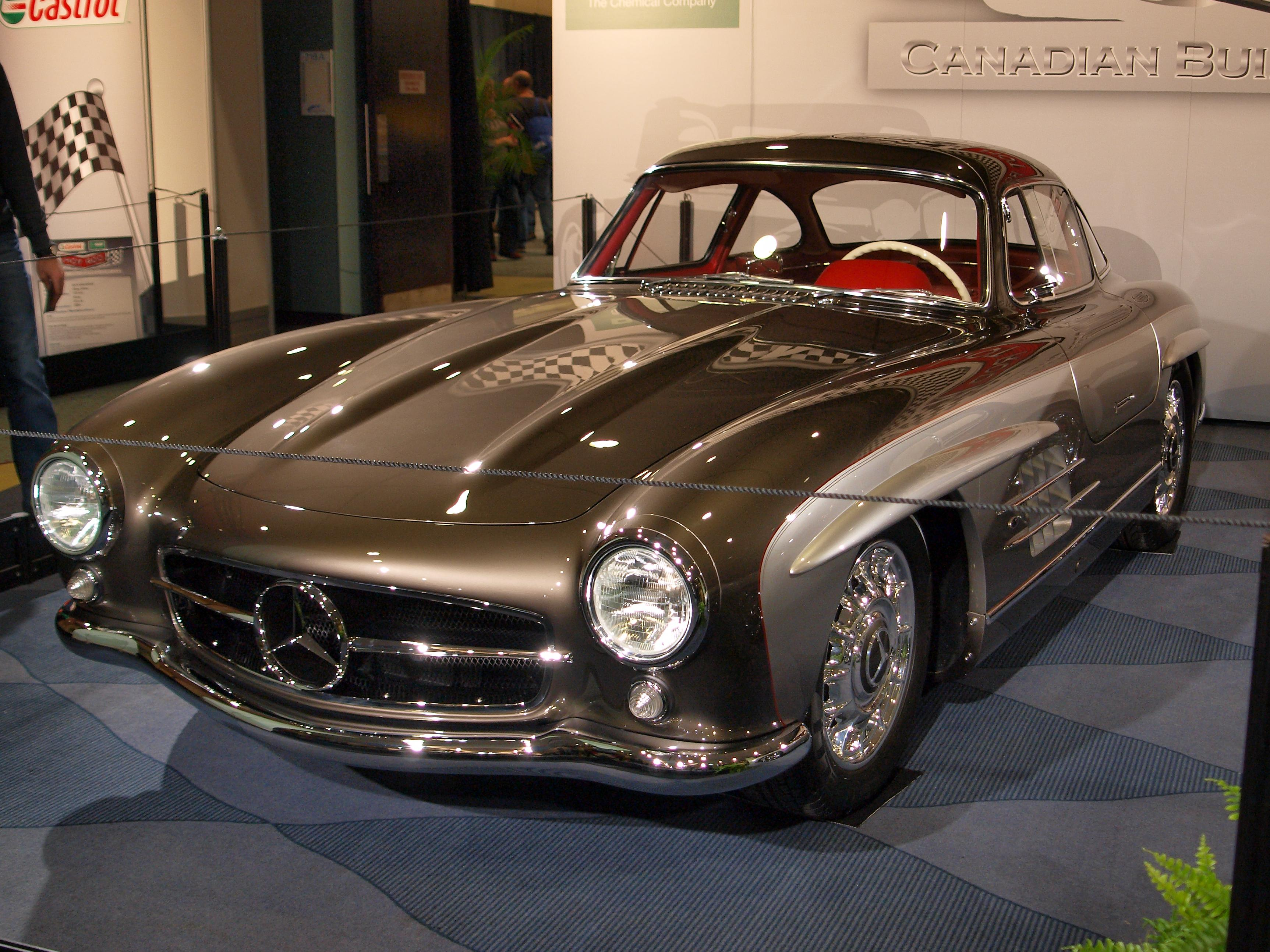 1957 Mercedes-Benz 300SL Gullwing Coupe. Anyone know the specific year?